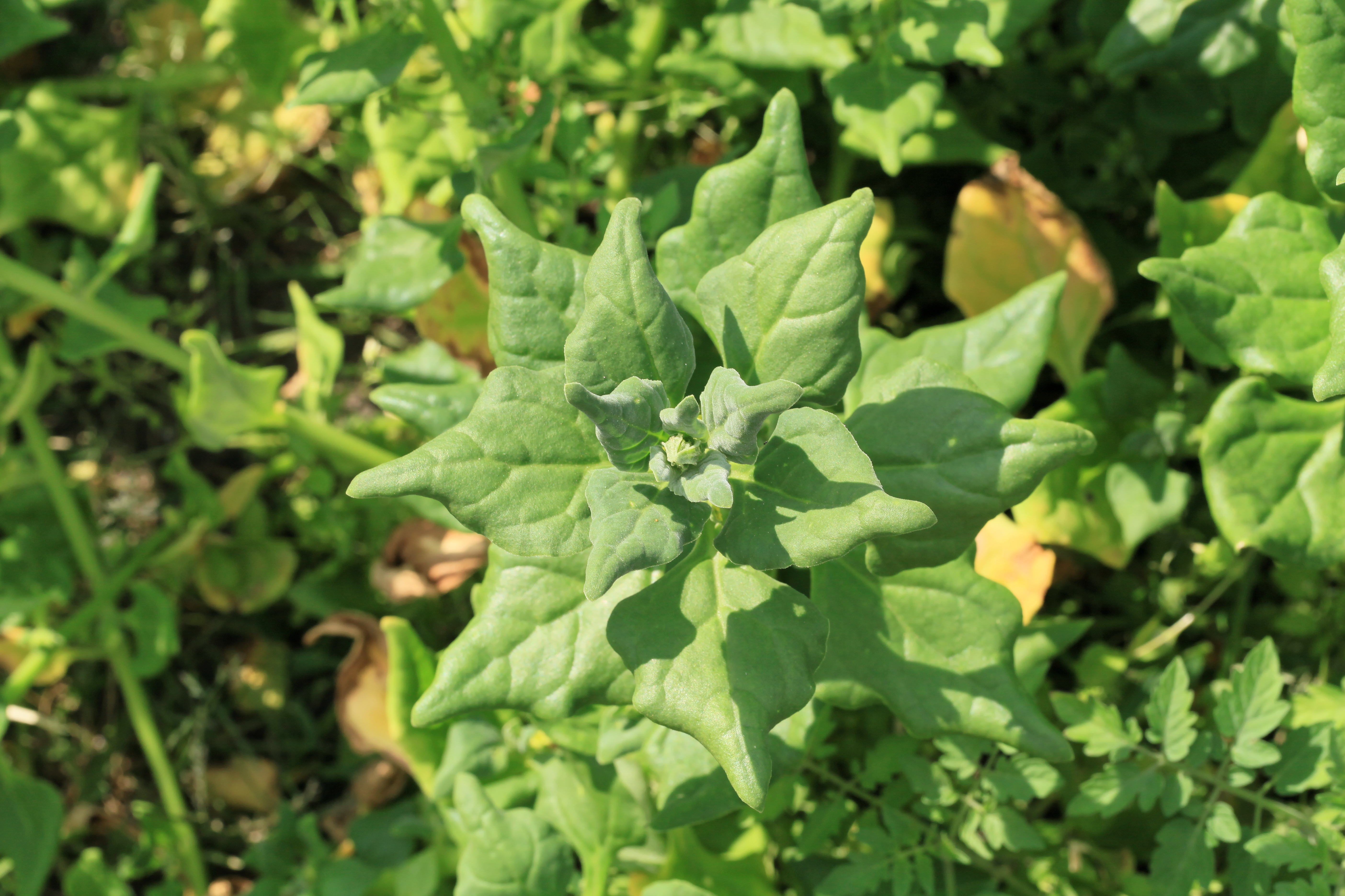 New Zealand spinach Tetragonia tetragonioides in a garden in Kluse (Emsland)